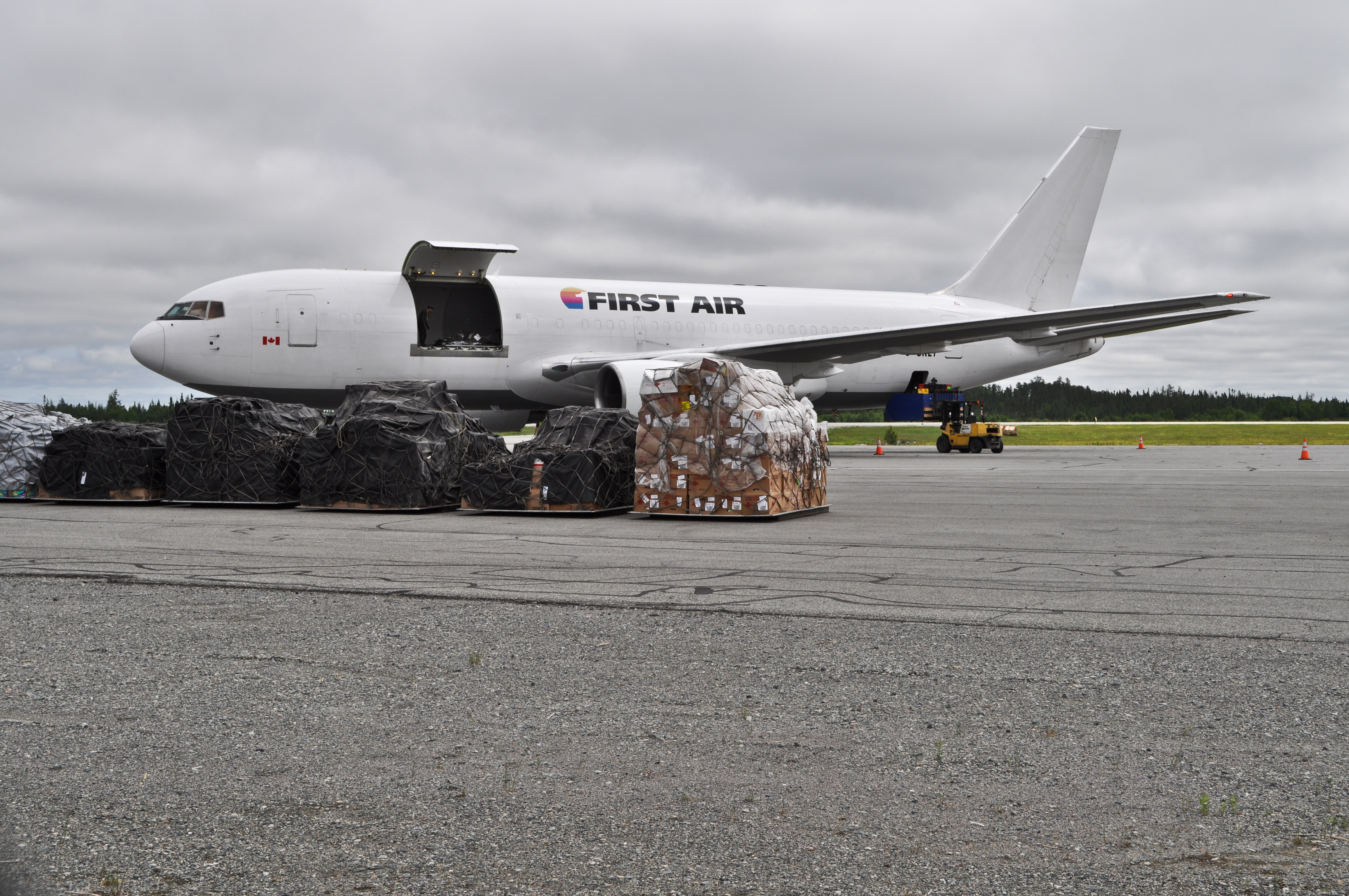 First Air's 767, C-GKLY, is ready to be loaded, at the Val-d'Or Airport.